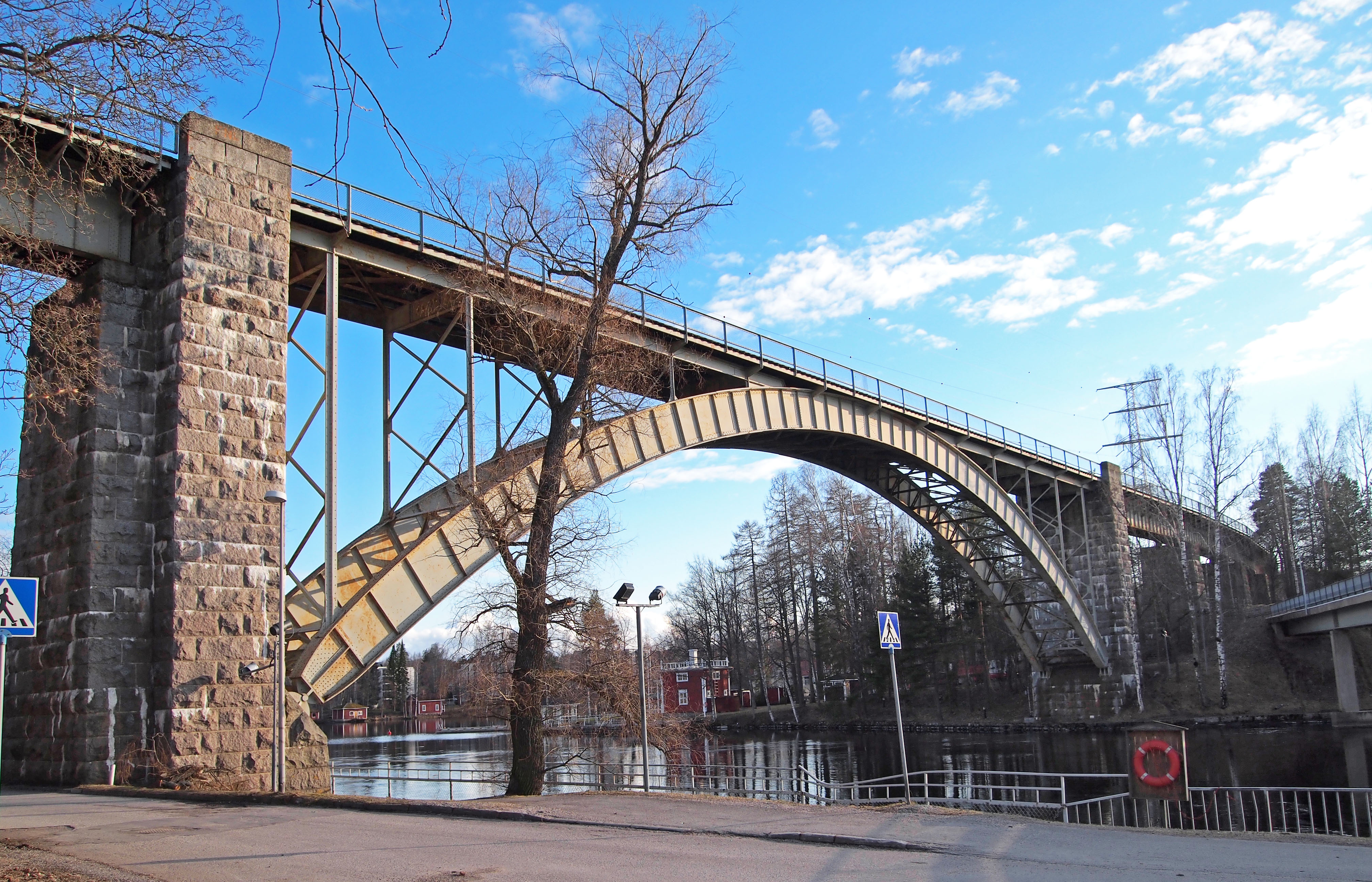 Train bridge in Heinola.